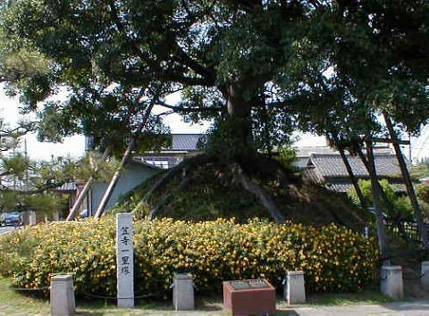 Kasadera Ichirizuka on the Tōkaidō in Minami-ku, Nagoya, Aichi, Japan.